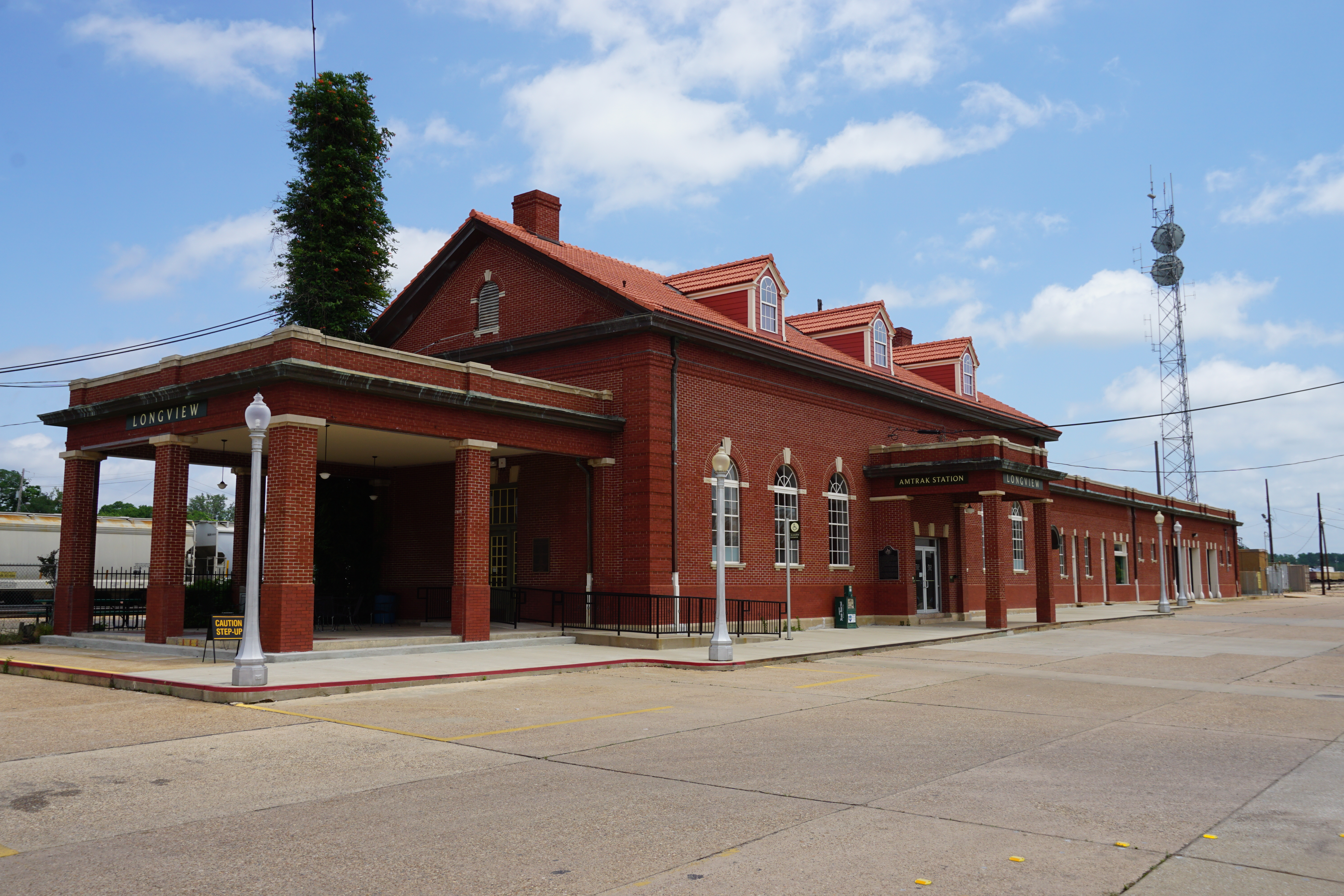 The Longview Transportation Center Station in Longview, Texas (United States).